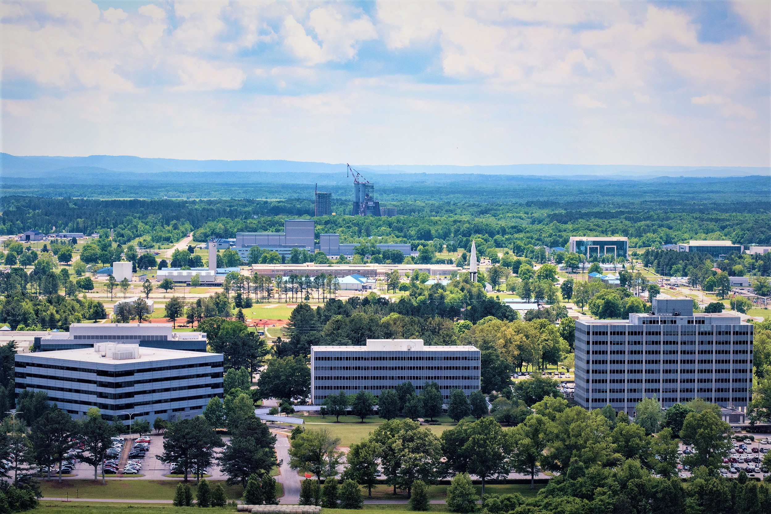 AERIAL PHOTOGRAPHS OF MSFC-4200 COMPLEX